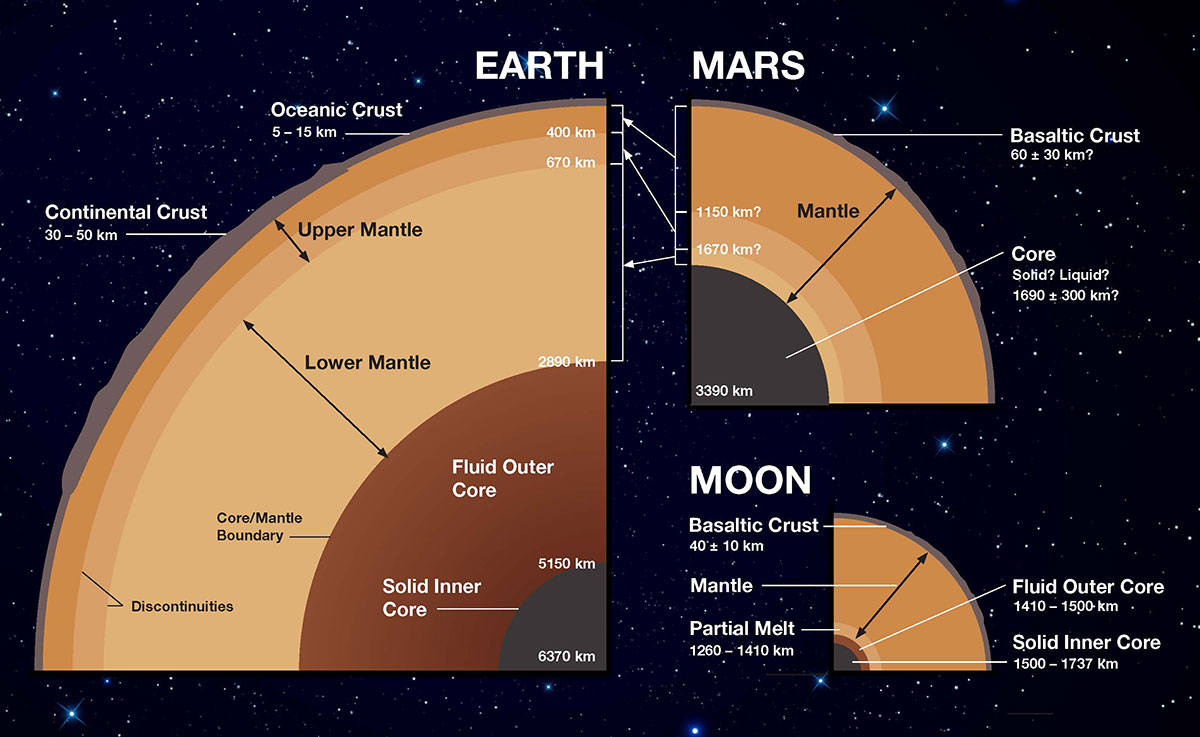 Schematic of similarities and differences in the interiors of Earth, Mars and Earth's Moon